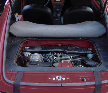 Engine compartment of the Volkswagen SP2. Picture taken by me, and edited to match the other ones I've uploaded.